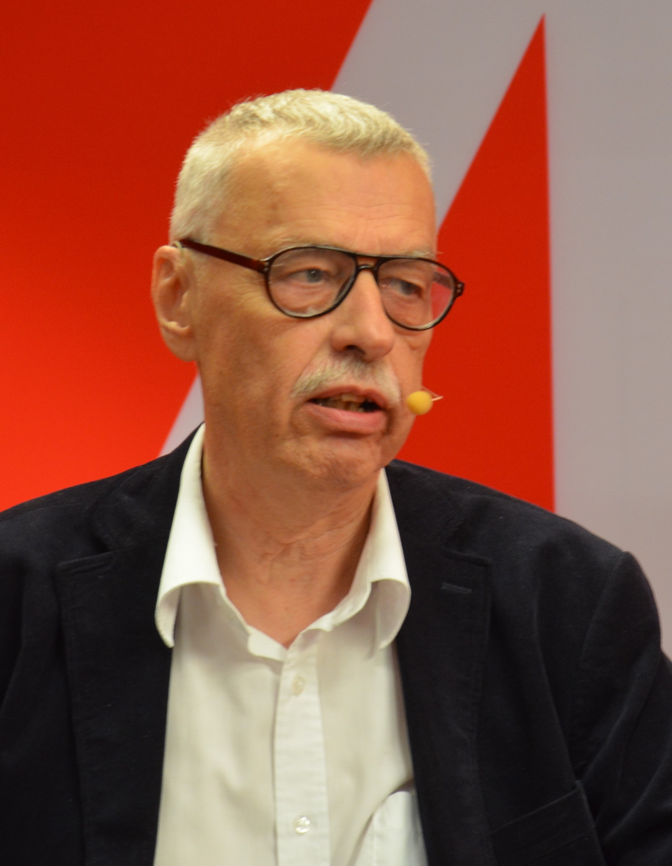 Svante Nordin intervjuas i Axess TV på Bokmässan i Göteborg 2014